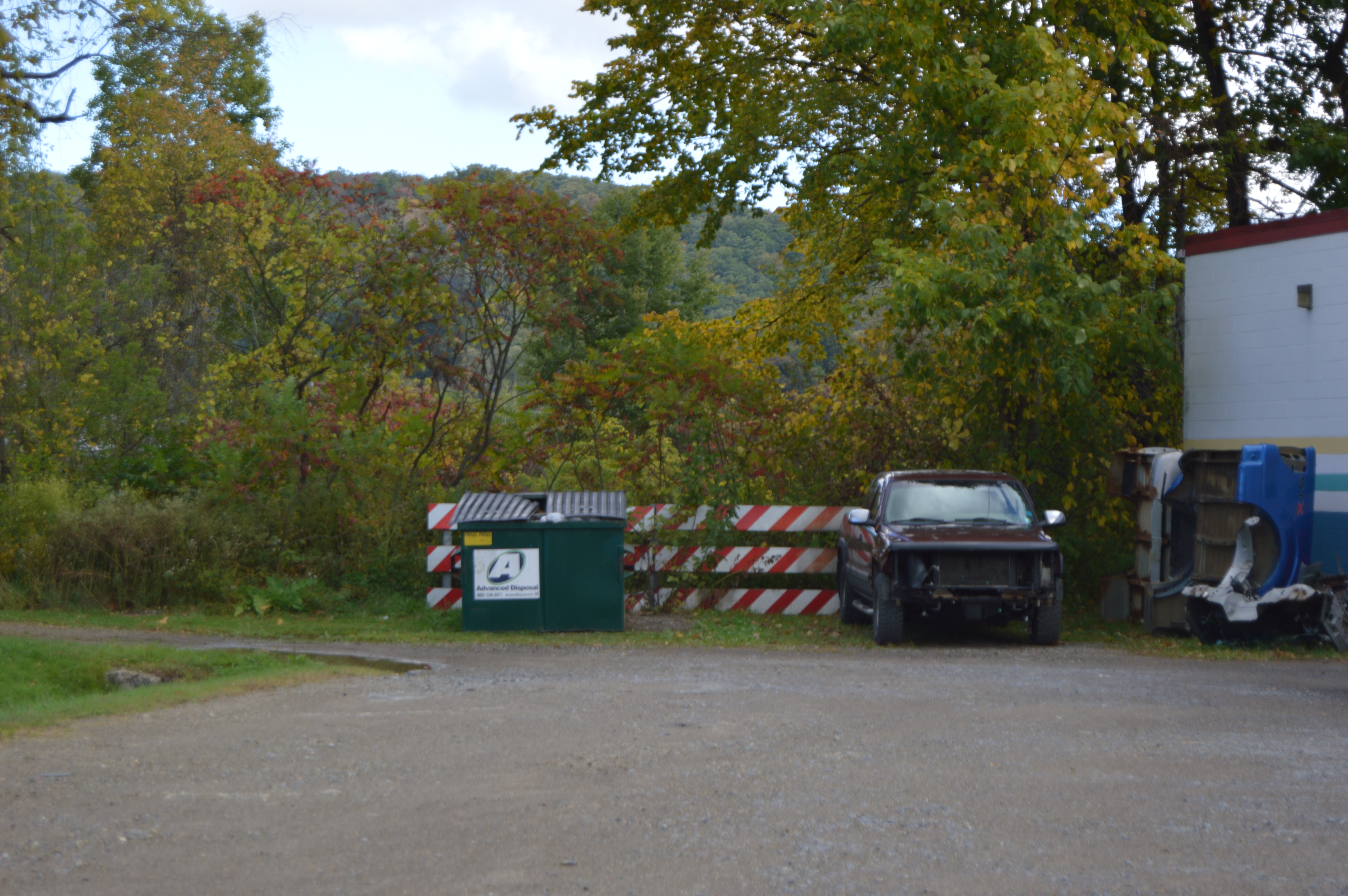 Sign at what was once the southern portal of the Bridge in Oil Creek Township, which carried Kerr Mill Road over Oil Creek in Oil Creek Township, Crawford County, Pennsylvania, United States. The bridge was built in 1896 and listed on the National Register of Historic Places in 1988; although destroyed, it has not yet been removed from the Register.